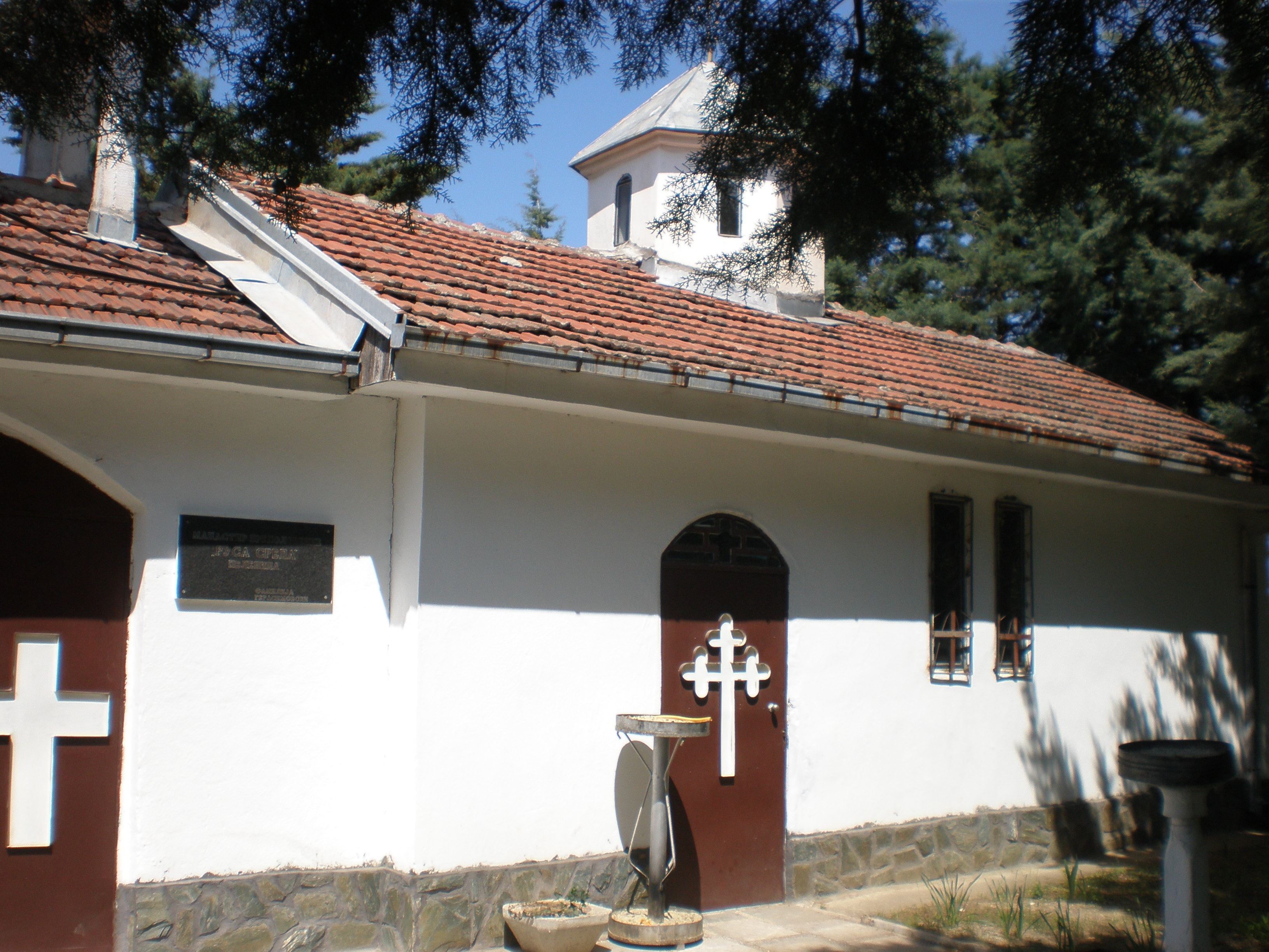 Church in the monastery Pelenica near Dracevo, Macedonia